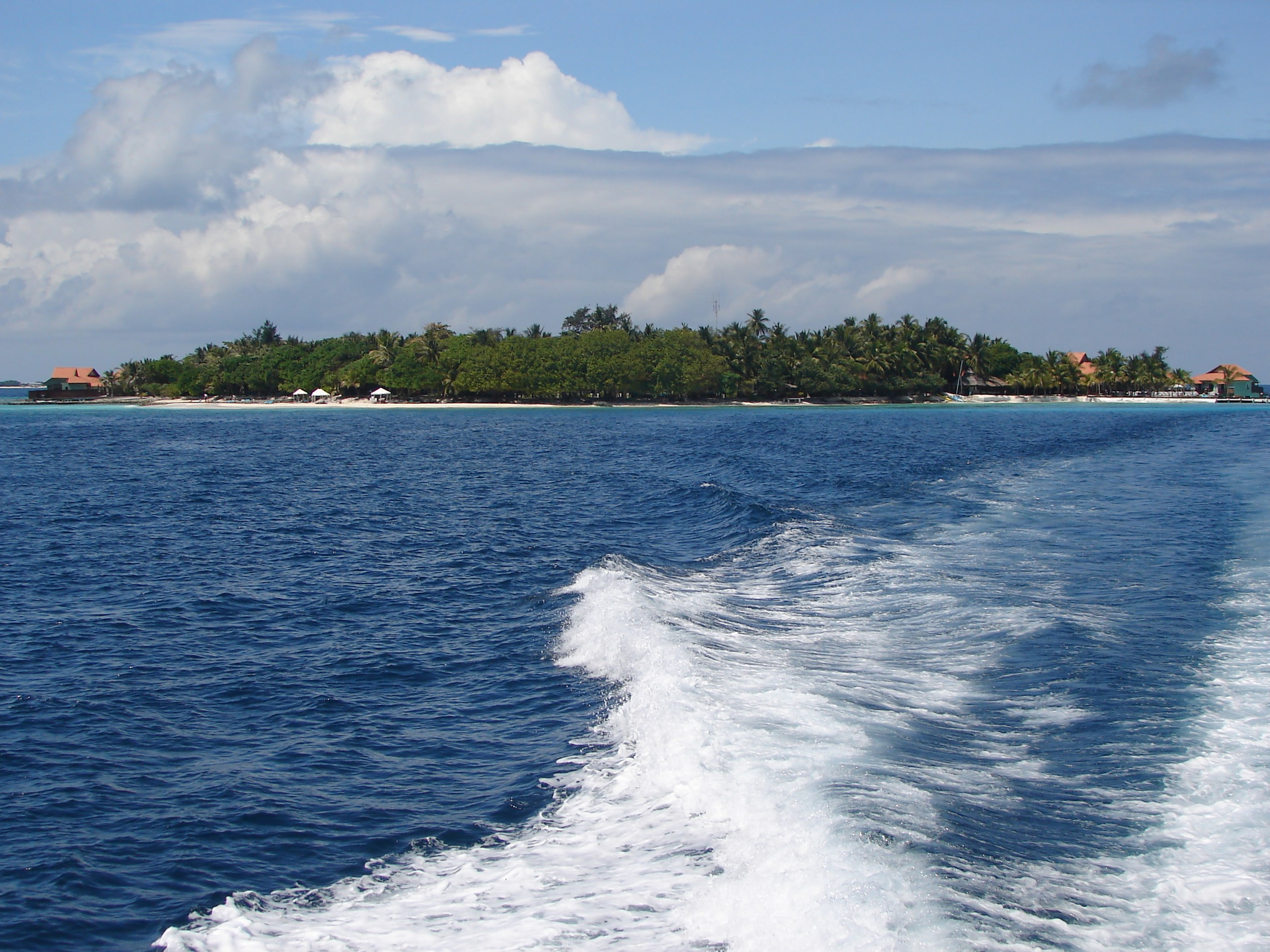 Photographs from Maldives